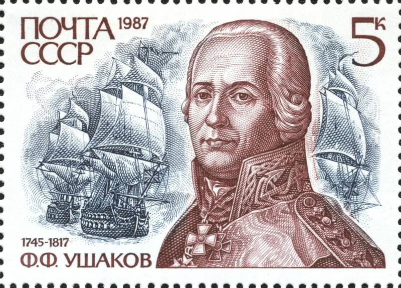 A USSR stamp, 5k maroon, Admiral Ushakov, Michel 5781, Scott 5623b